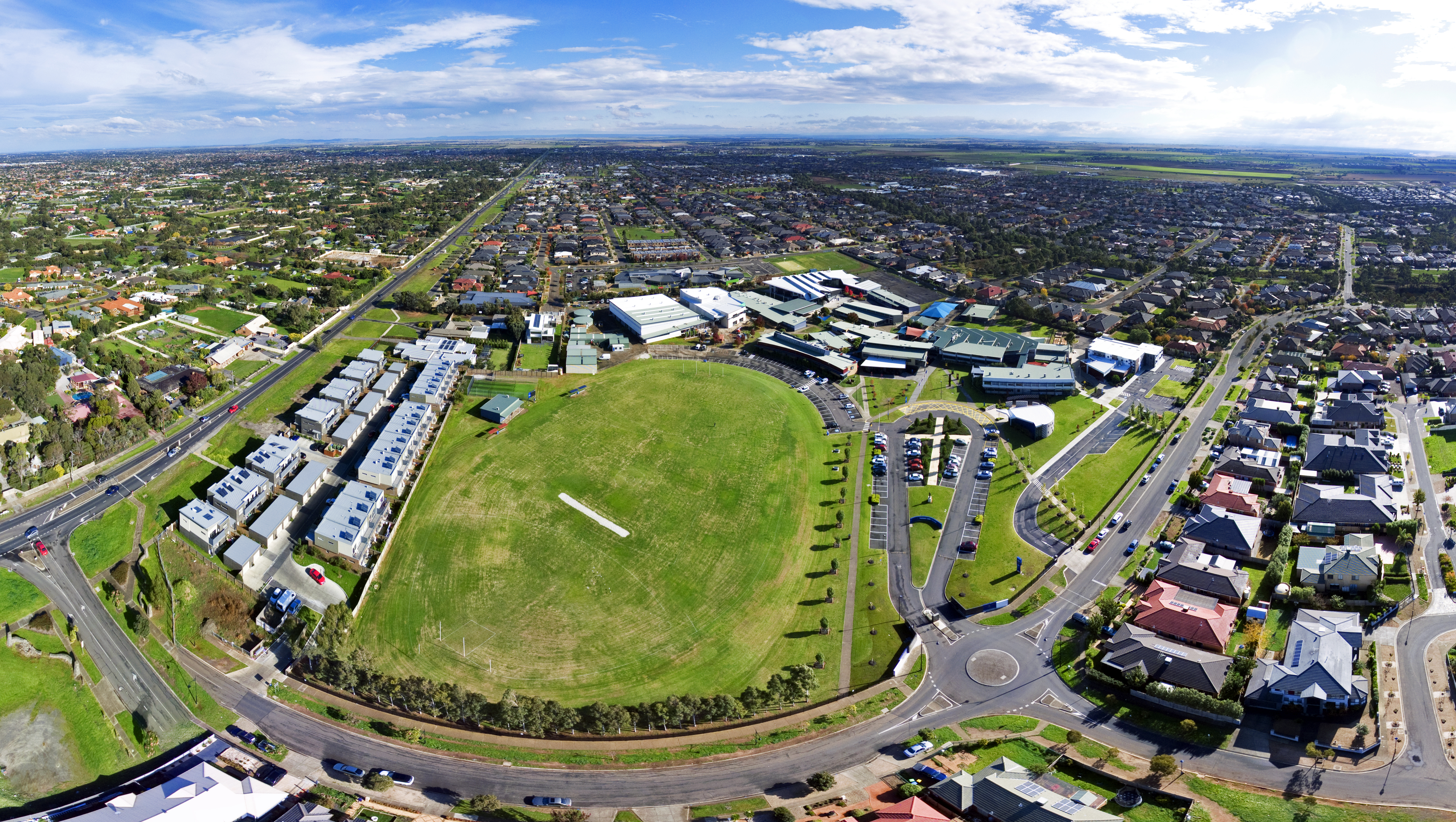 Aerial panorama of Thomas Carr College in Tarneit, an outer western suburb of Melbourne, Victoria, Australia.